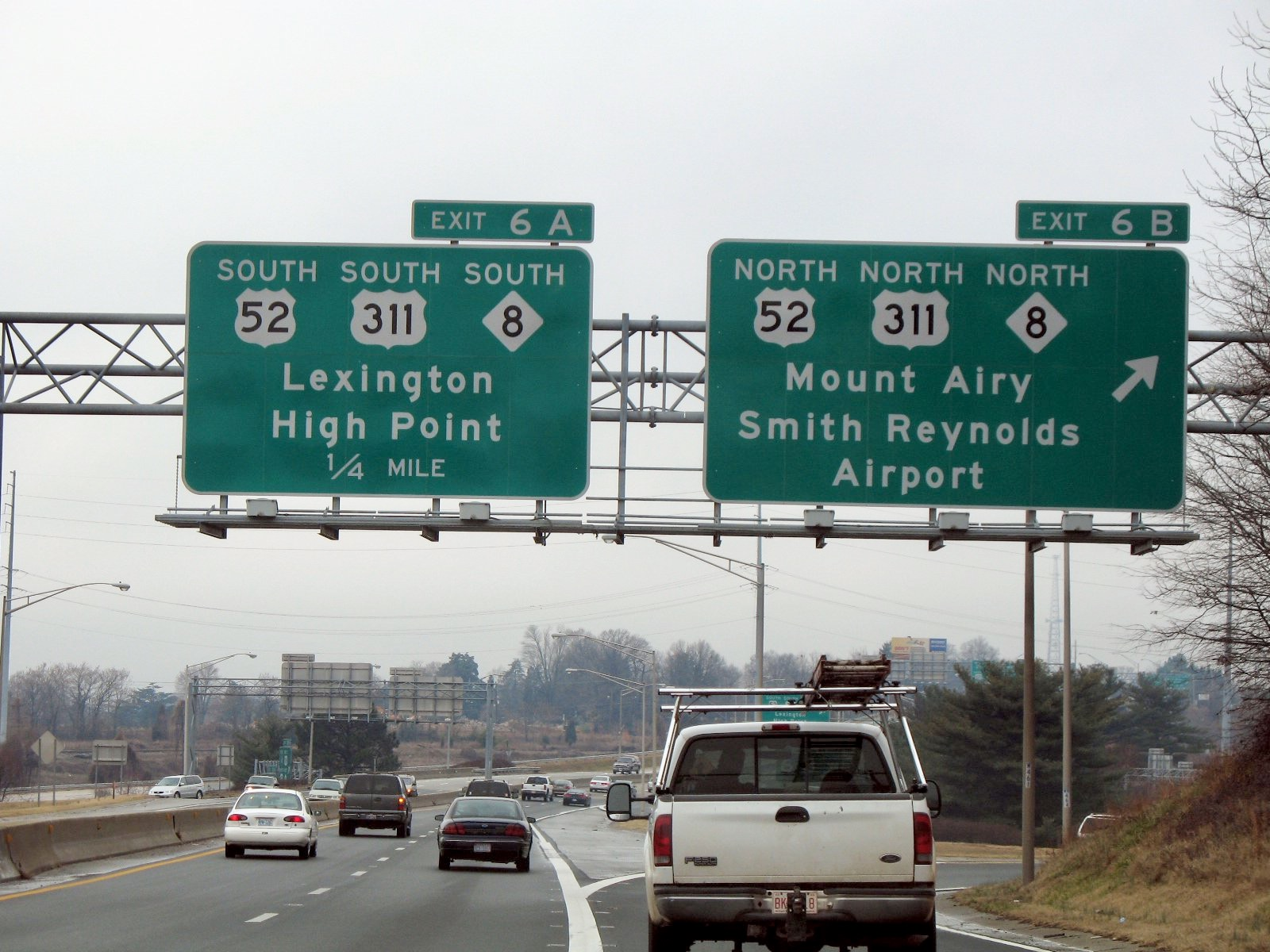 Westbound at US 52 junction on Business Route I-40 in Winston-Salem, NC.